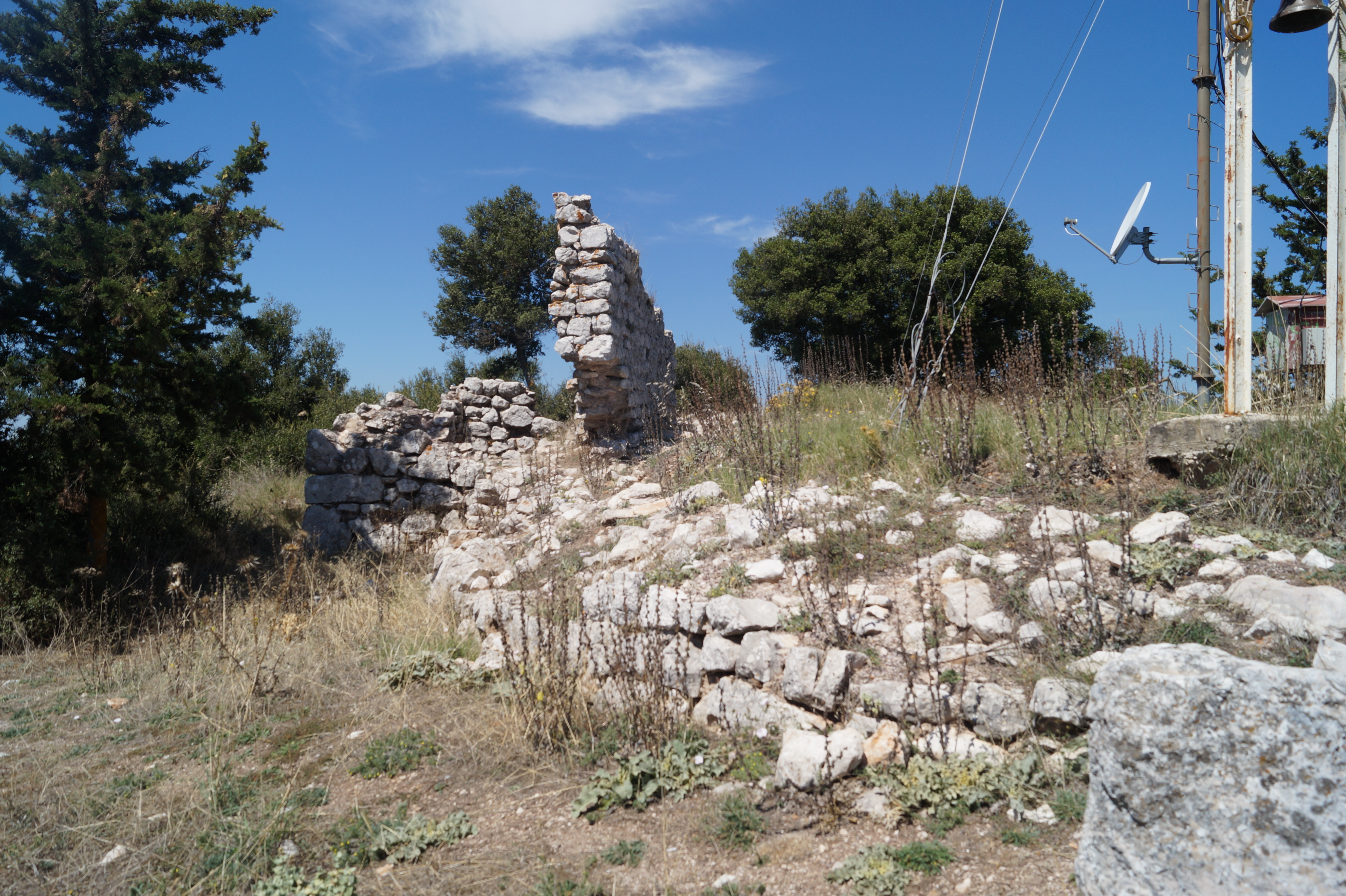 Angelokastro, Corinthia, Greece: Angelokastro Fortress. Ruins of a tower.